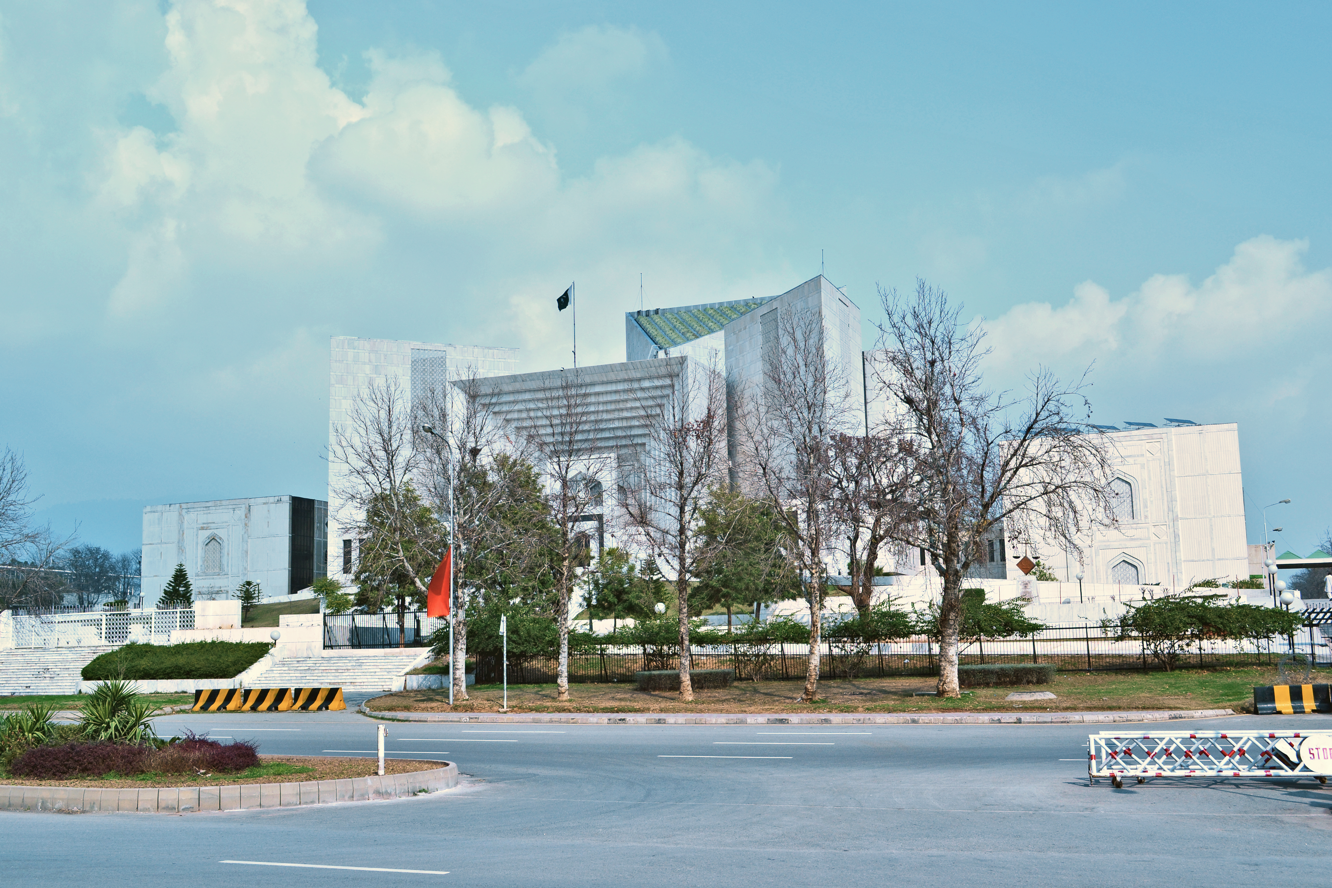 Supreme Court- East side